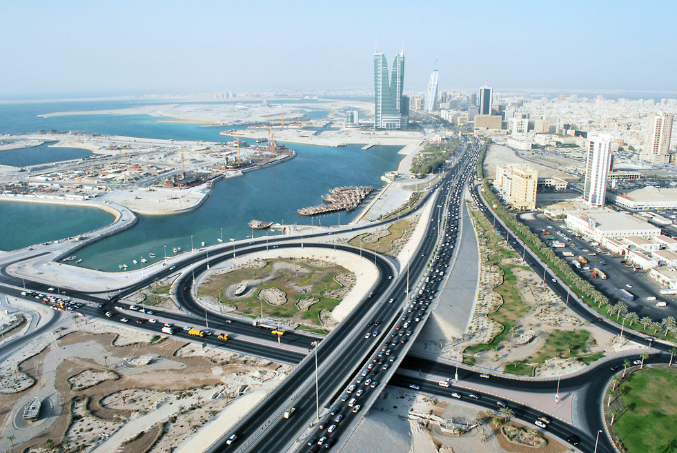 Skyline with roads, towers and harbour of Manama, Bahrain.